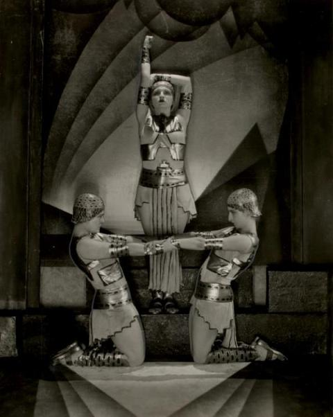 The Marmein Dancers, Irene, Miriam and Phyllis Marmein